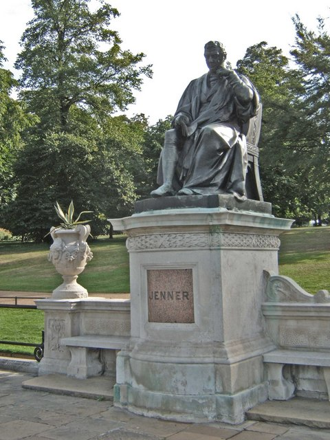 Statue of Edward Jenner. This is the statue of Edward Jenner in Kensington Gardens. A county doctor who's blatant disregard for medical ethics (he deliberately tried to infect a boy with smallpox definitely against the Hippocratic oath!) it enabled him to prove the protective effect of cowpox against smallpox. Jenner's discovery has saved countless lives and eventually rid the world of smallpox see 1452454 for a fuller story.